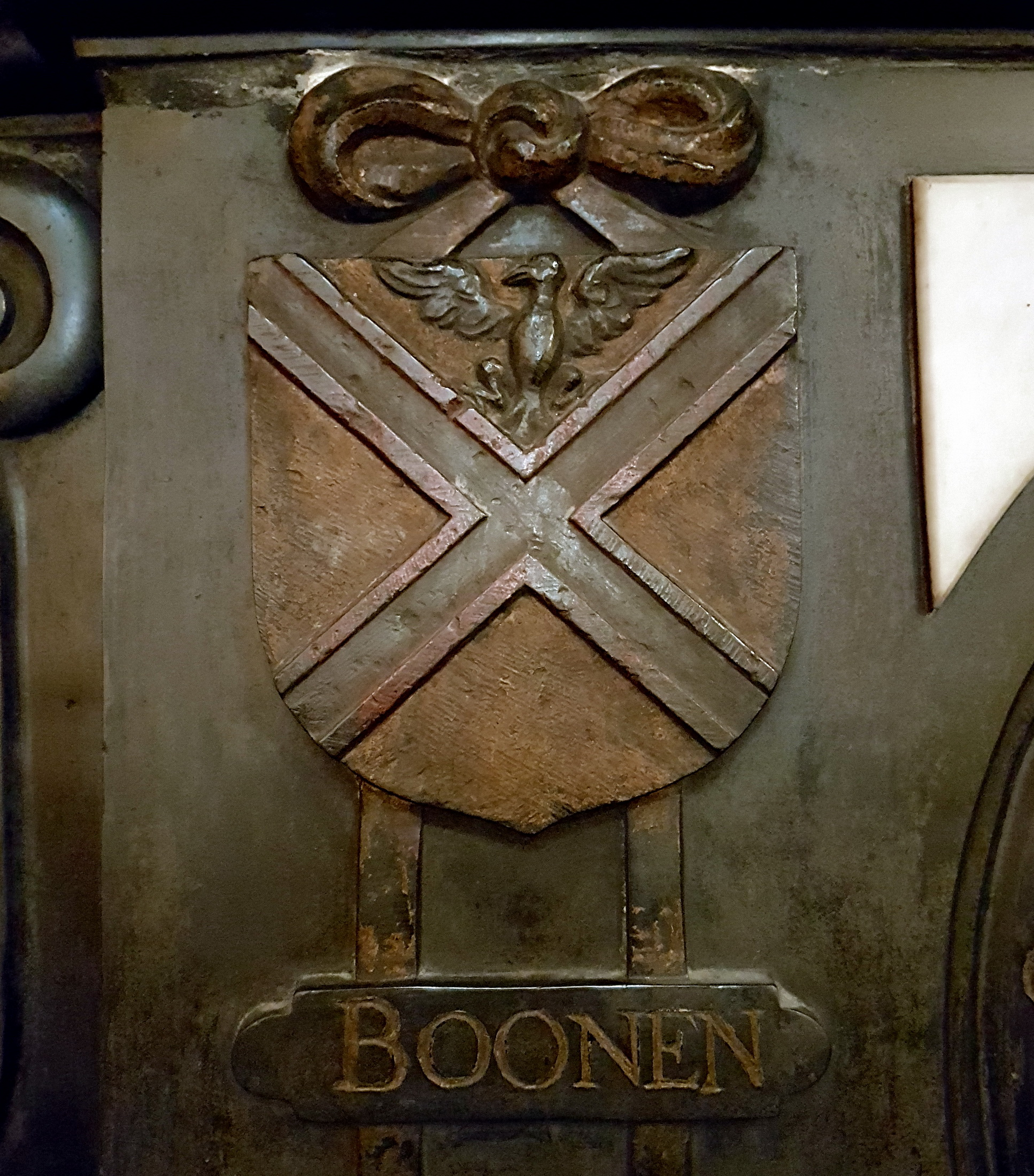 Detail of an epitaph of canon Engelbert Boonen (18 August 1661) in the chapel of Our Lady of Sorrows, the westernmost of the south aisle chapels of the Basilica of Saint Servatius in Maastricht, Netherlands. The detail shows the coat of arms of the Boonen family: a Saint Andrew's cross with an eagle in the top section.